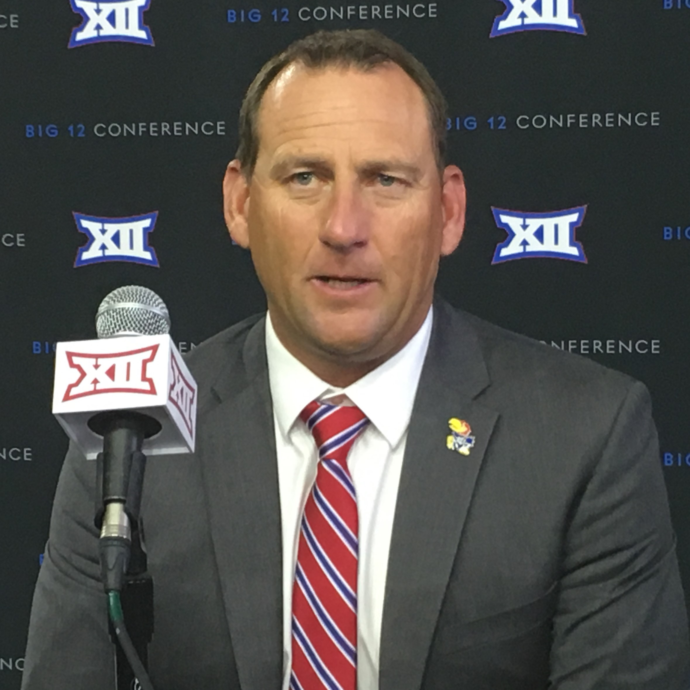 David Beaty, head coach of the Kansas Jayhawks football team, at the 2017 Big 12 Conference Media Days in Frisco, Texas.